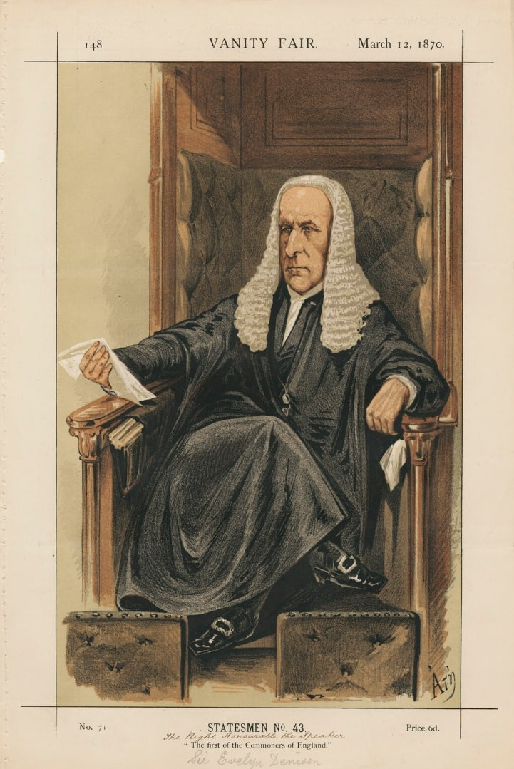 Caricature of Evelyn Denison MP (1800-1873), Speaker of the House of Commons, later 1st Viscount Ossington. Caption read "The first of the Commoners of England".